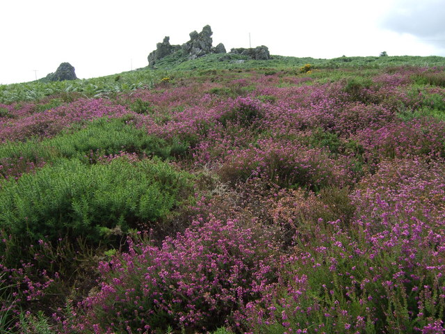 Heather below Maiden Castle Purple bell heather (Erica cinerea) in bloom, July.